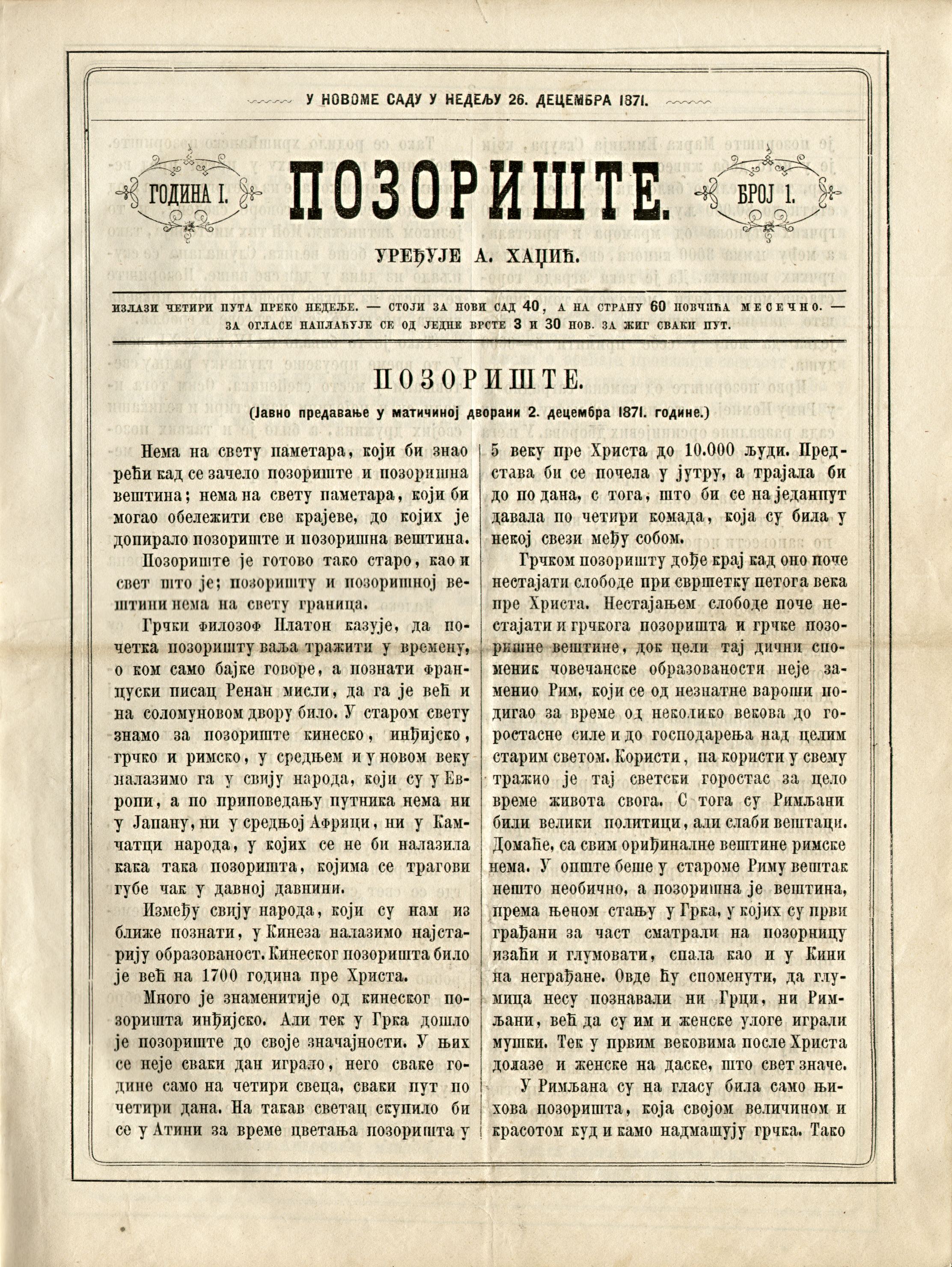 The 1st Number of 'Тhe Theatre' (1871-1908), magazine of SNT, editor Anonije Hadžić, Novi Sad, 1871; Theatre Museum of Vojvodina Srpski (latinica): Prvi broj 'Pozorišta' (1871-1908), časopisa Srpskog narodnog pozorišta, urednik Antonije Hadžić, Novi Sad, 1871; Pozorišni muzej Vojvodine Српски (ћирилица): Први број 'Позоришта' (1871-1908), часописа Српског народног позоришта, уредник Антоније Хаџић, Нови Сад, 1871; Позоришни музеј Војводине